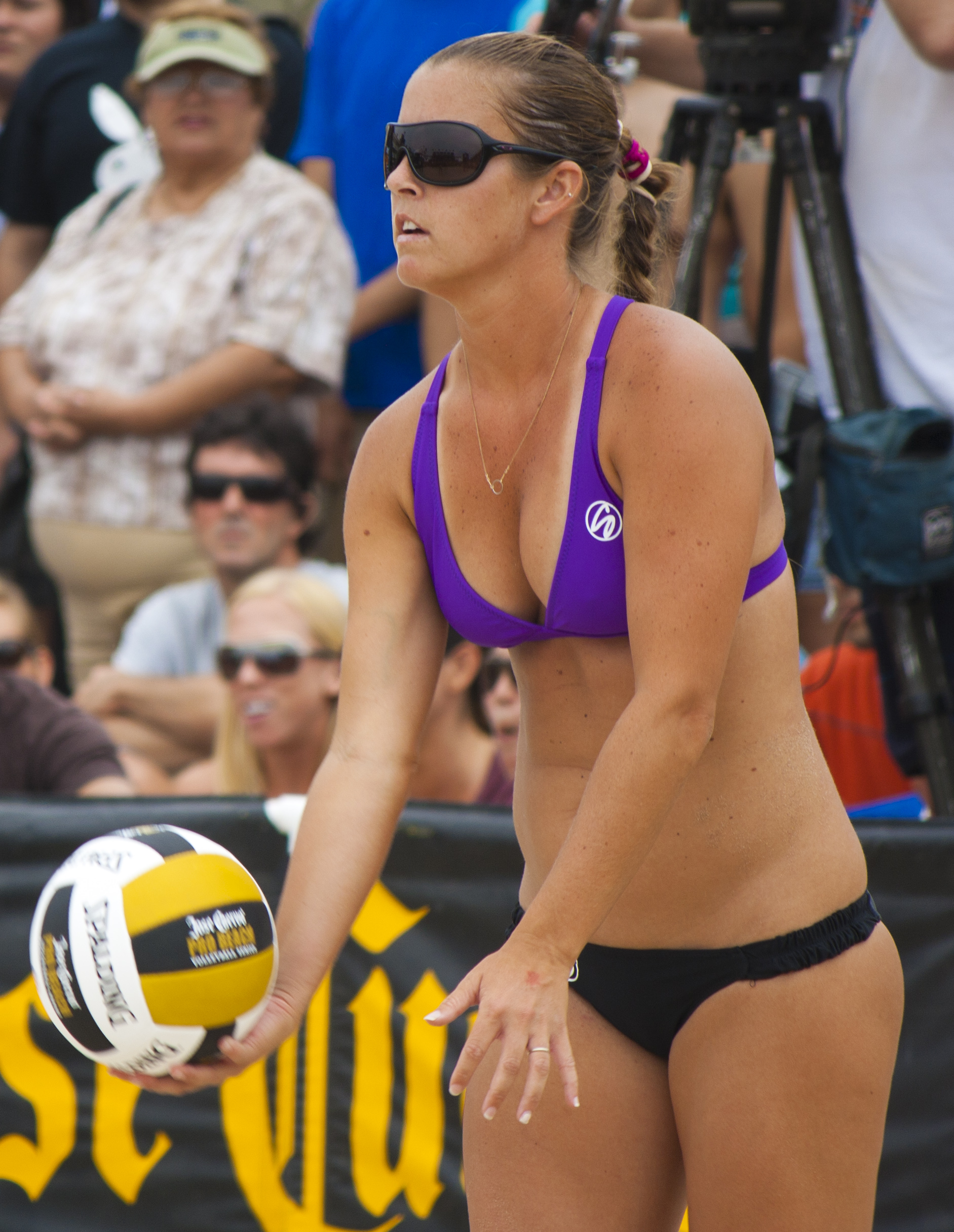 the US beach volleyball player Brooke Sweat at a tournament in Hermosa Beach